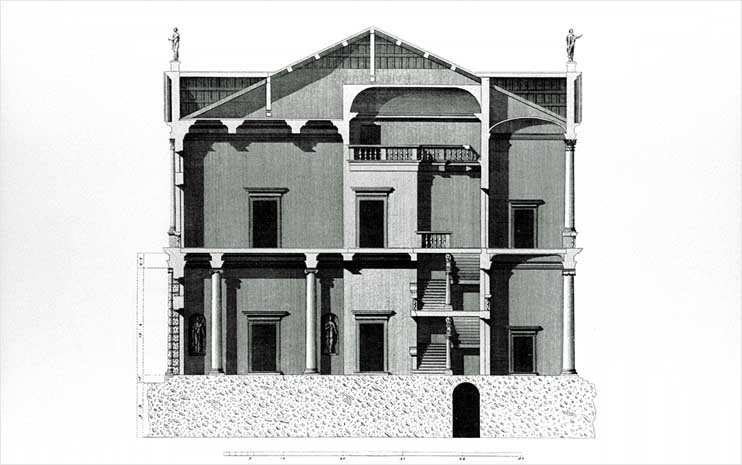 Palazzo Antonini in Udine, by Andrea Palladio. Drawing by Ottavio Bertotti Scamozzi, 1781